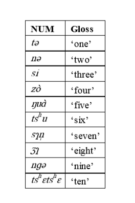 the cardinal numbers of ersu